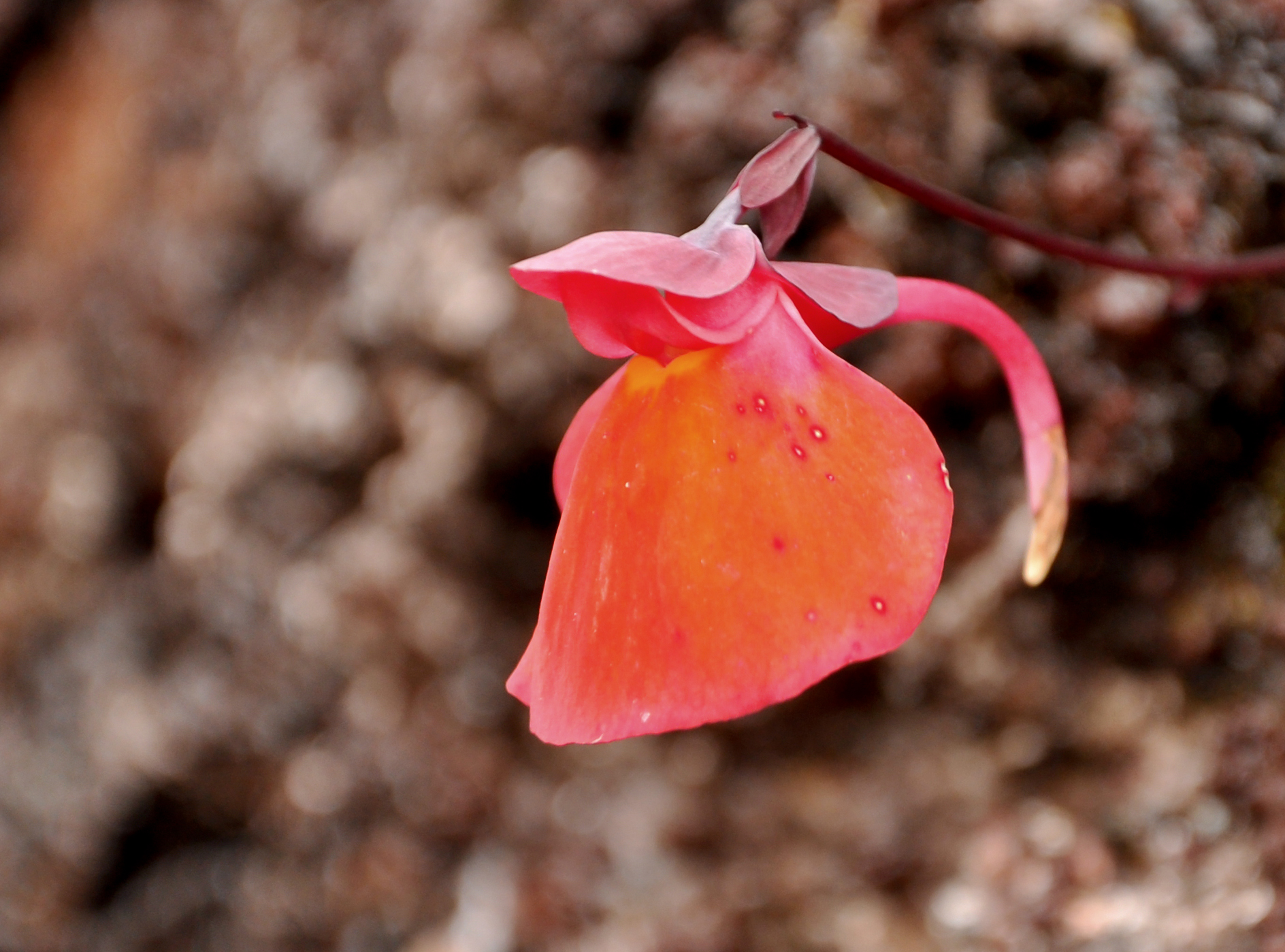 Utricularia Quelchii found in summit of Mount Roraima